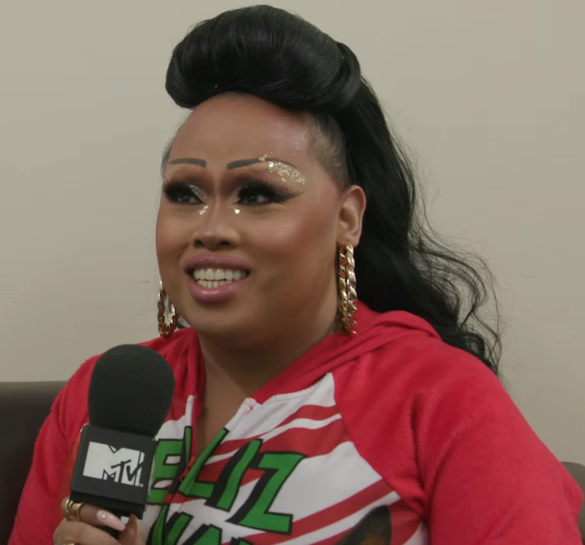 Jiggly Caliente interviewed for MTV International in 2018.